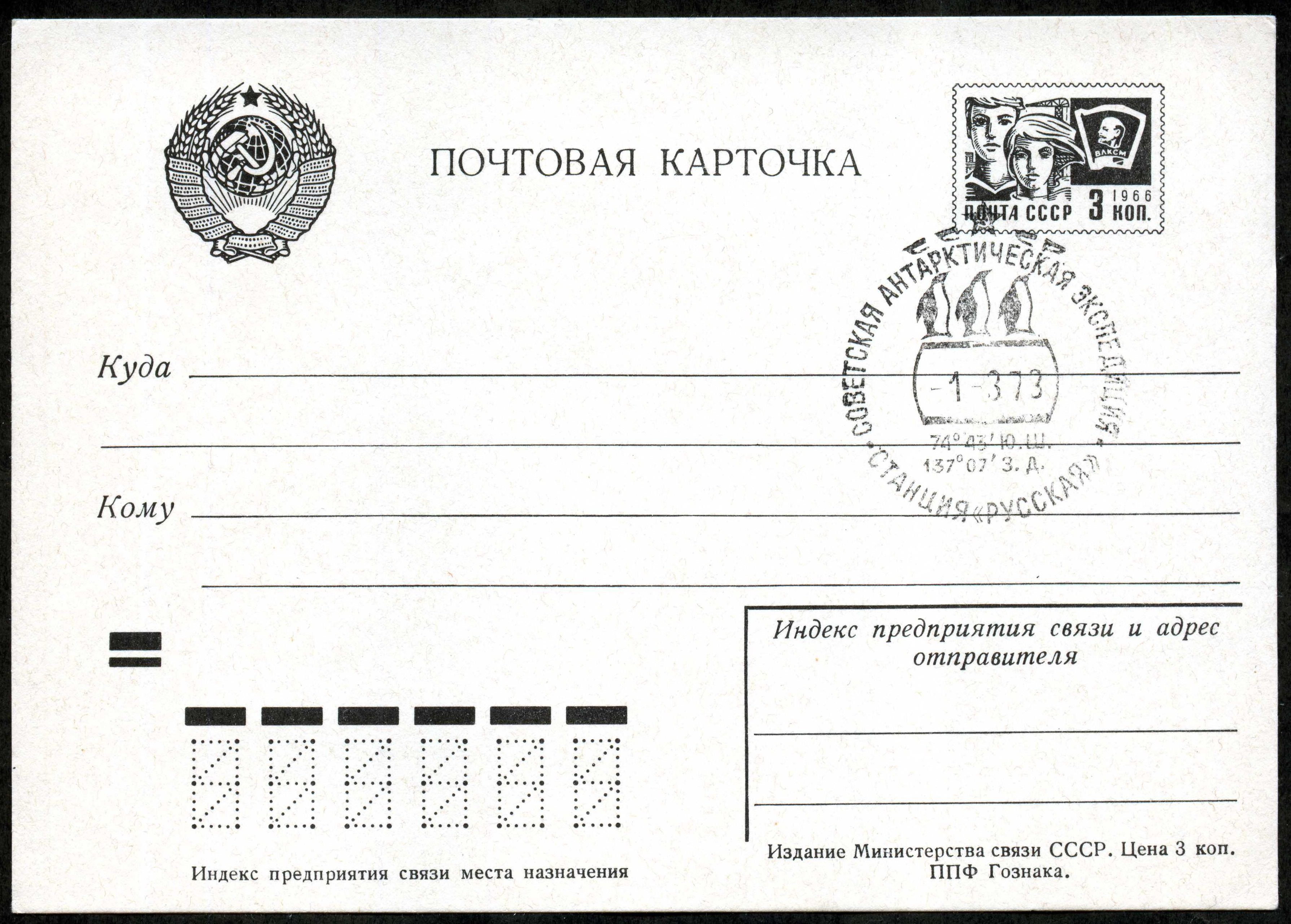 Postal card